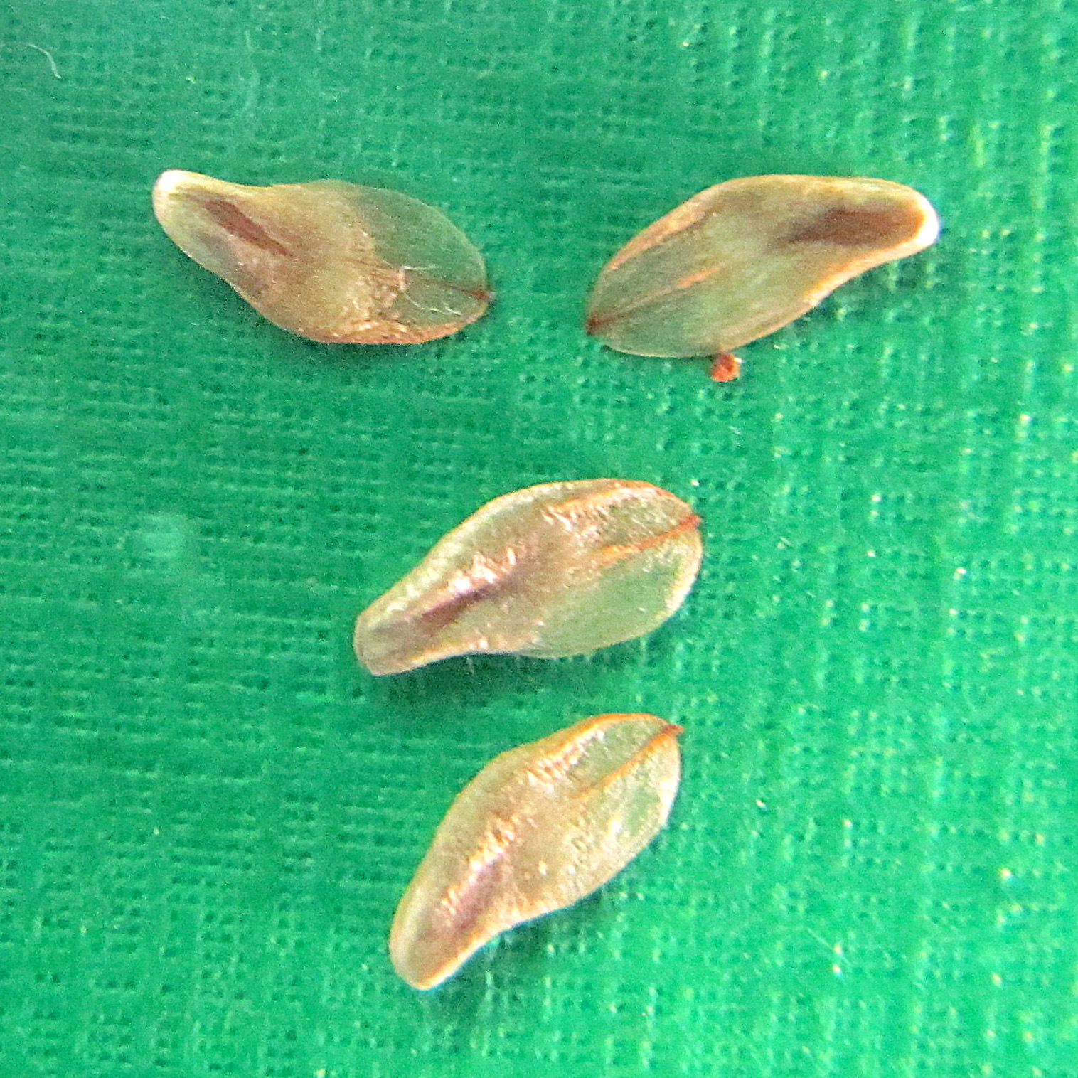 Casuarina cunninghamiana fruits